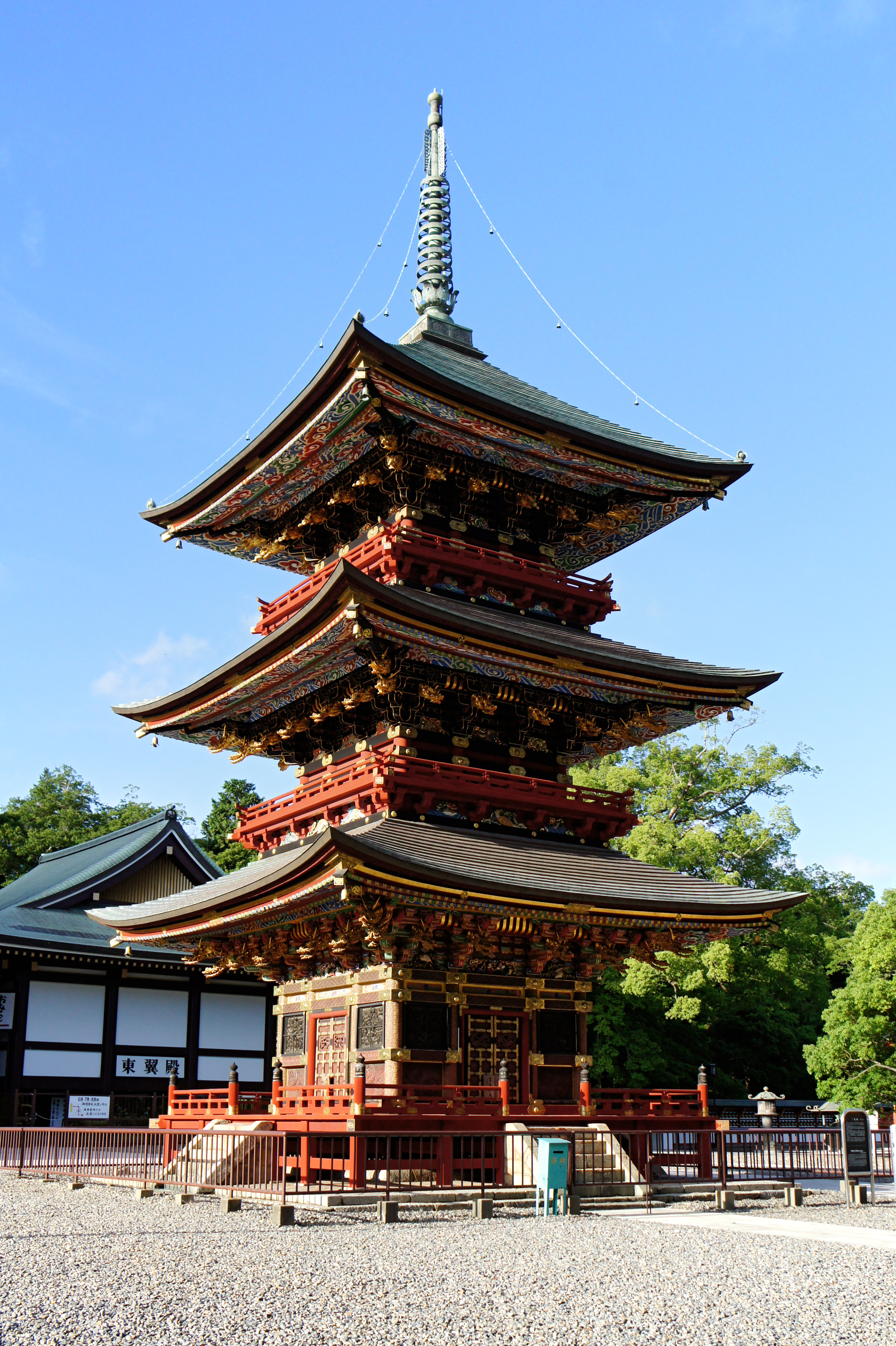 Narita-san Shinshō-ji in Narita, Chiba prefecture, Japan.